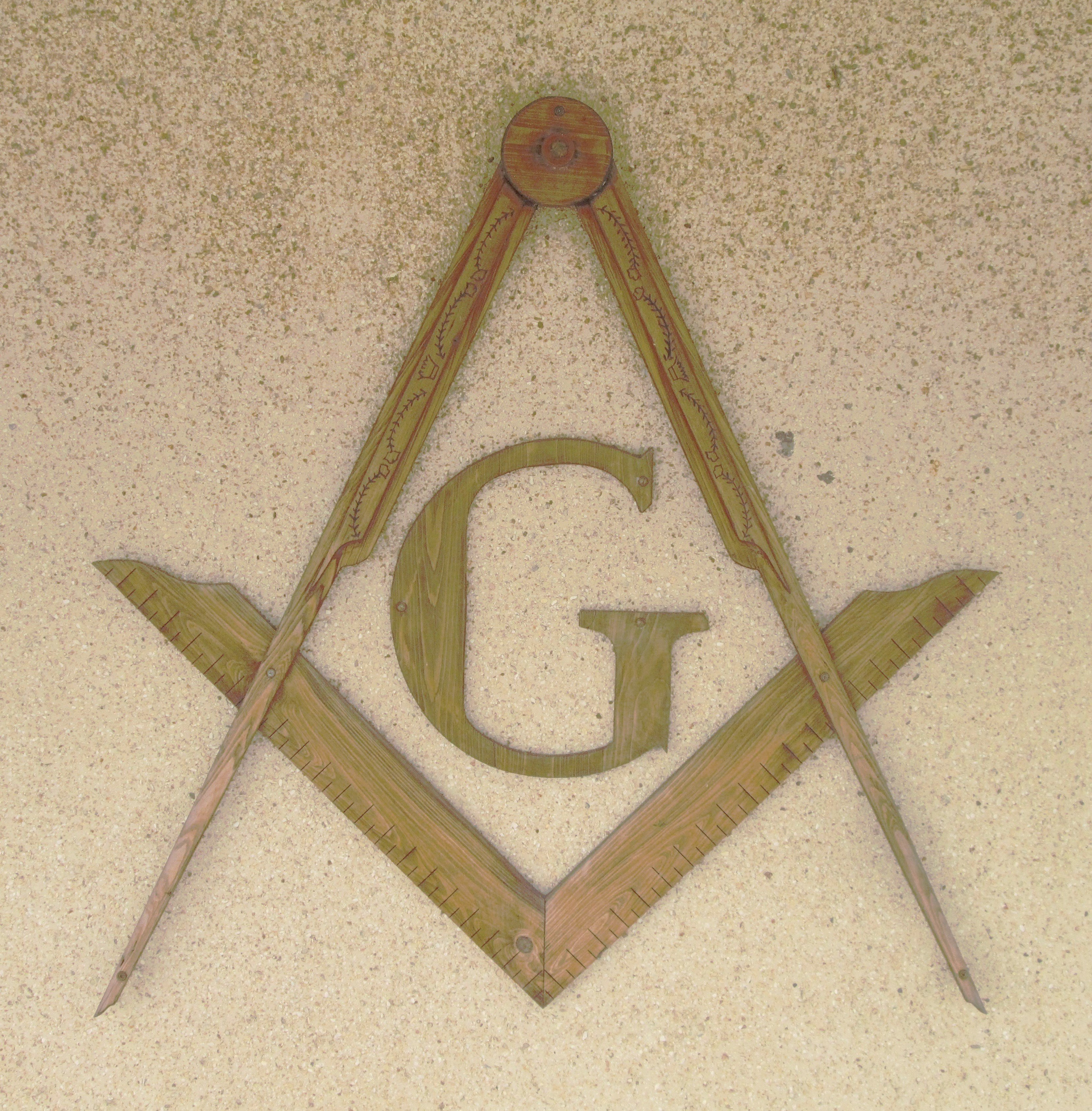 The Masonic Square and Compass symbol on the outside of Masonic Lodge #282, located at 103 N. Main Avenue in Lake Placid, Florida.